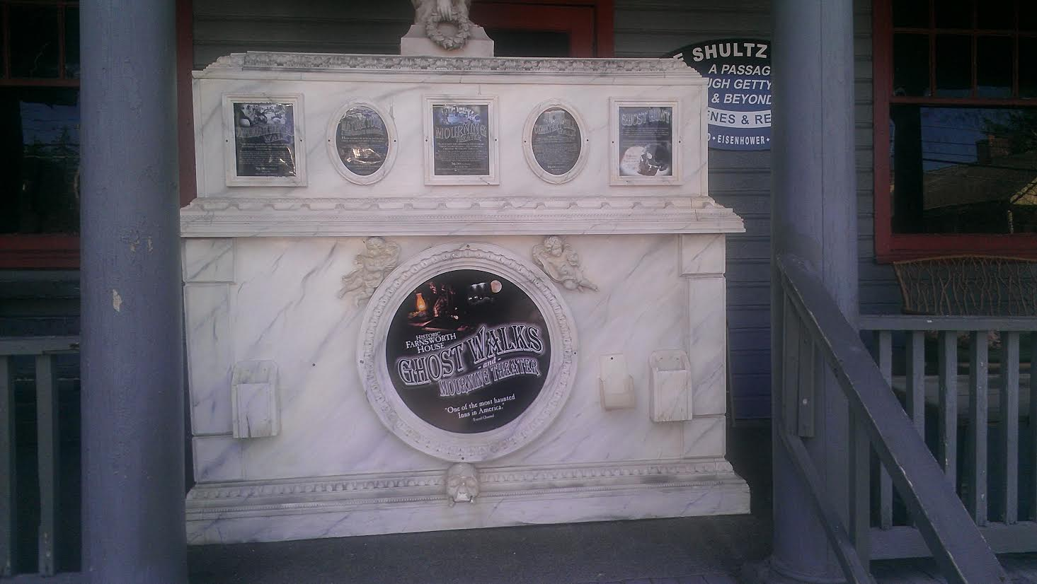 The stone that explains the tour options